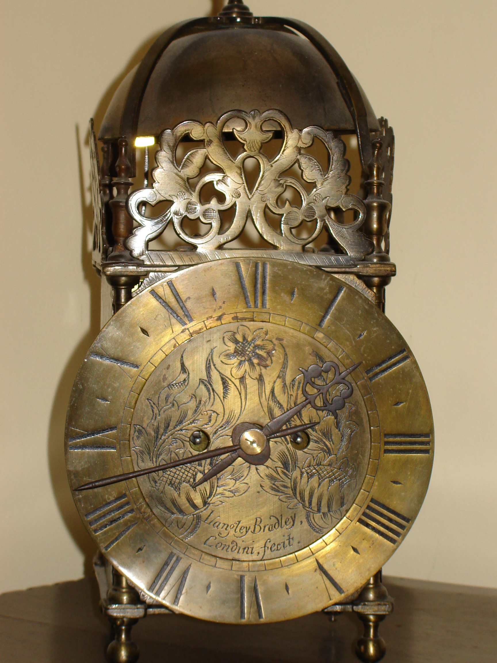 Lantern clock by Langley Bradley, London, c. 1700. BEWARE: this illustration is not of a genuine lantern clock, c. 1700, but is a repro!!!